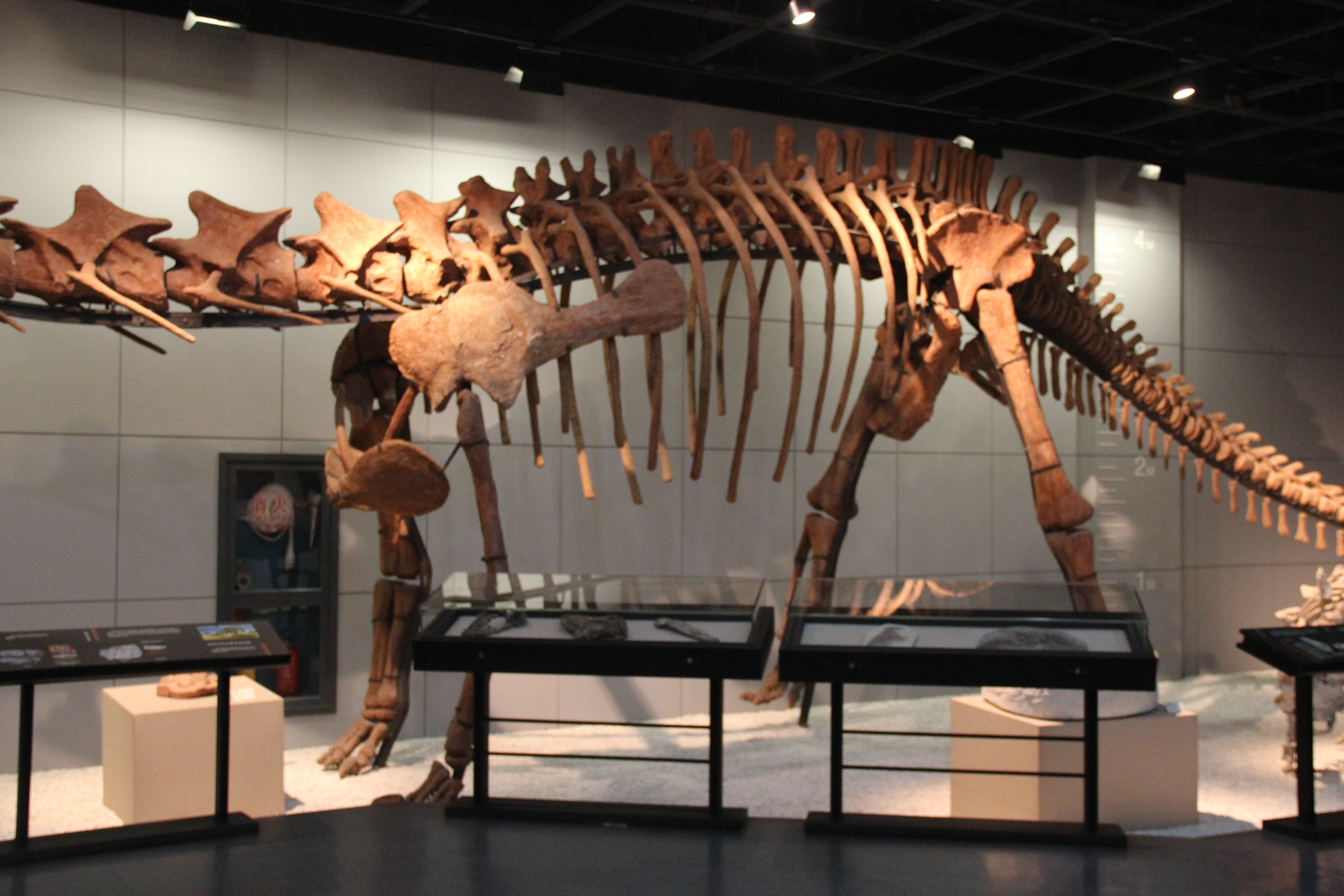 Zhejiang Natural History Museum, Hangzhou, China. Complete indexed photo collection at .